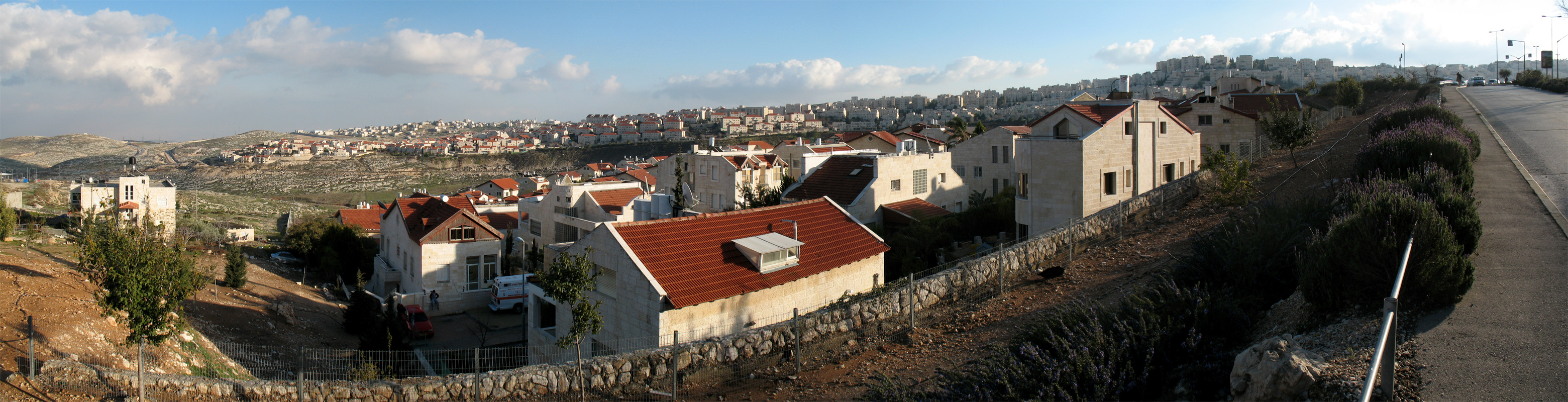 The Jerusalem neighborhood Pisgat Ze'ev East